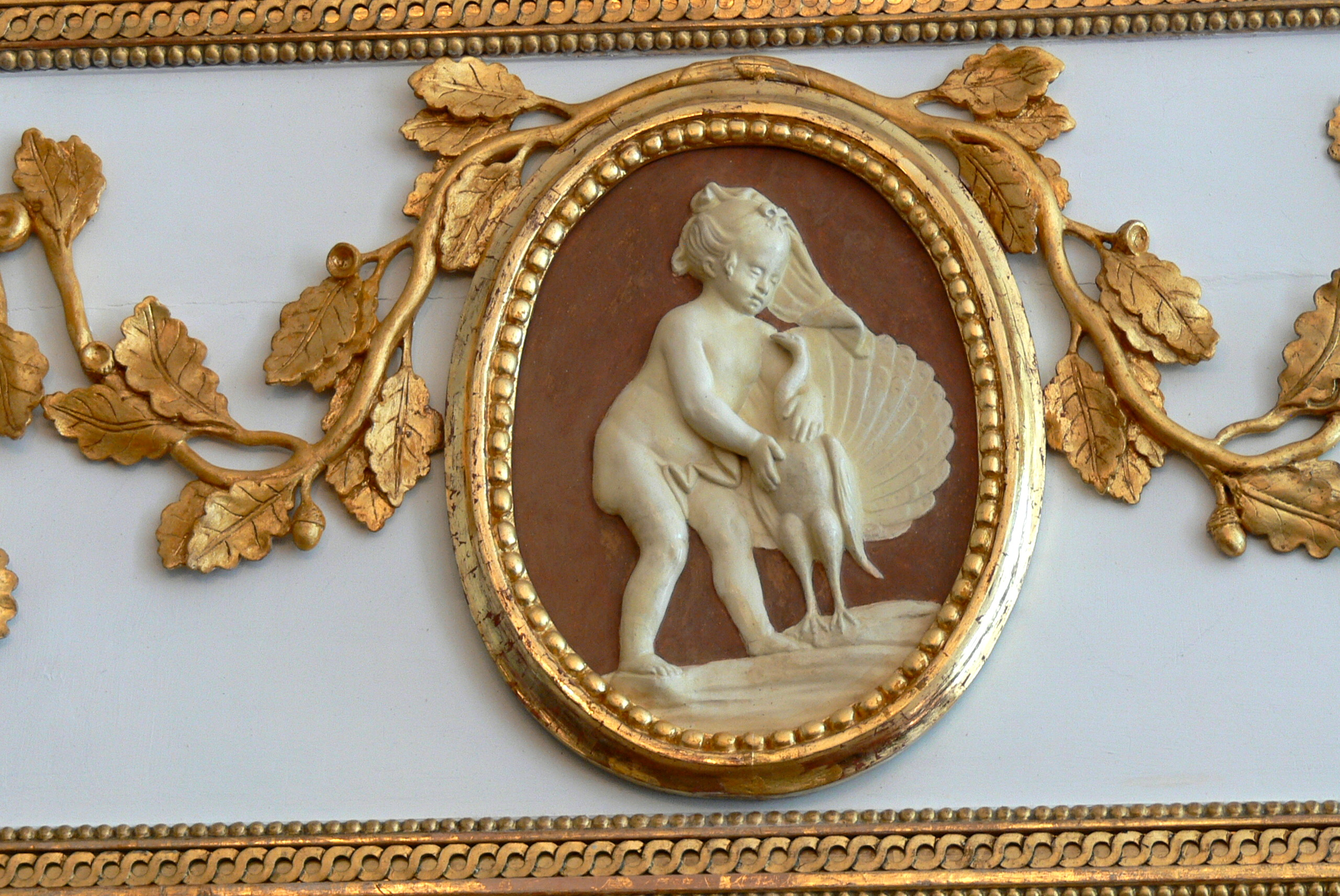 Rožmberk palace ( Prague castle ). Living room - Medaillon showing a putto with peacock.